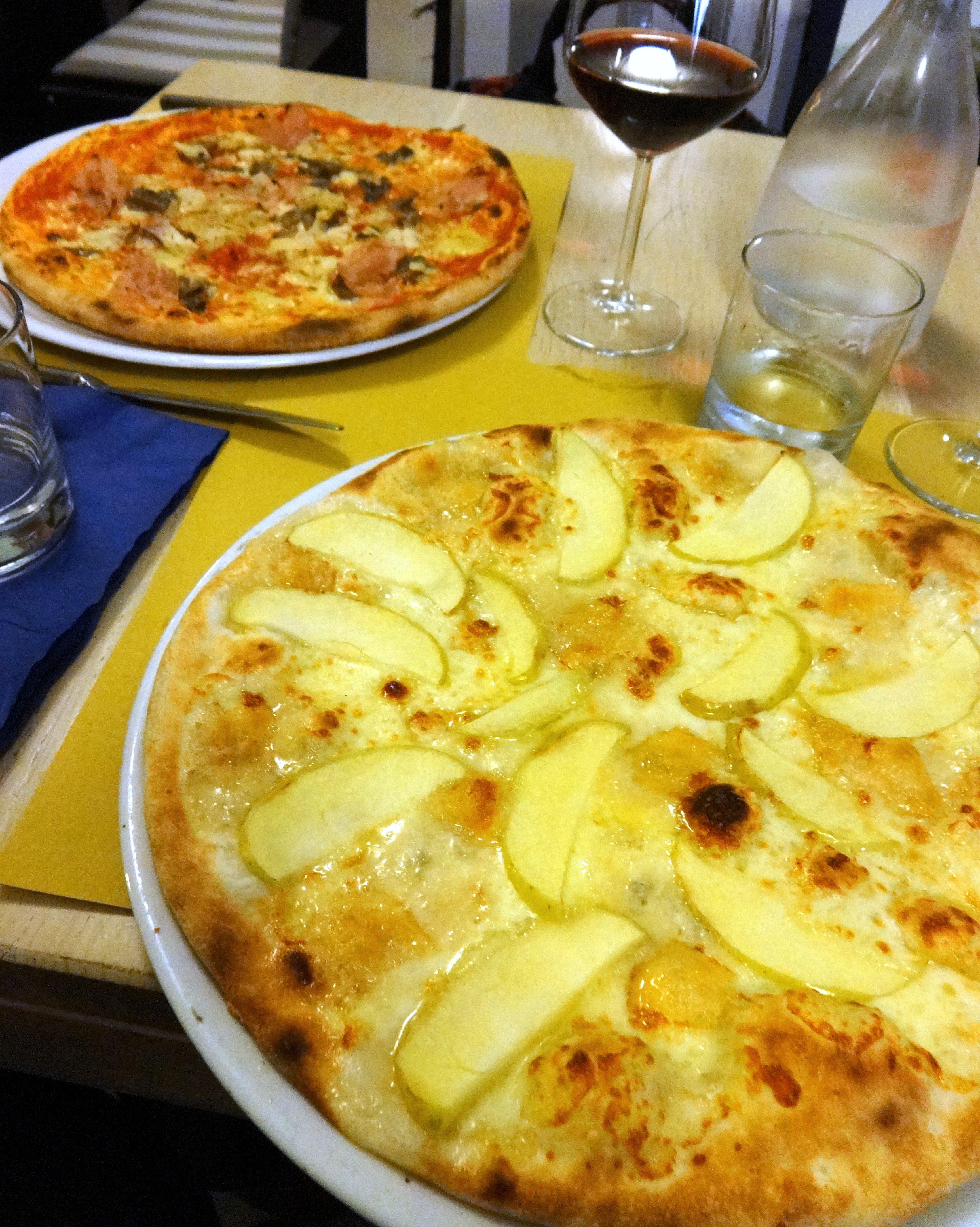 Two pizzas in Omegna, at Lake Orta, Italy in autumn. The pizza in the front is "Pizza Trieste" with Gorgonzola ("Zola" in Omegna) and apples.